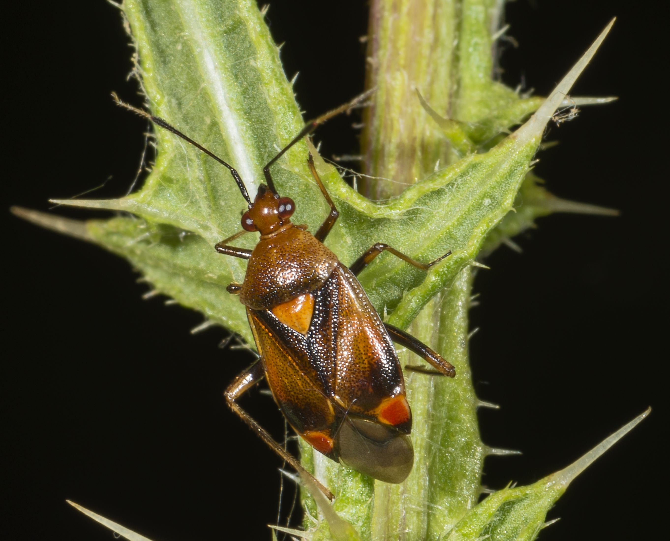 Mirid Bug, common red form.